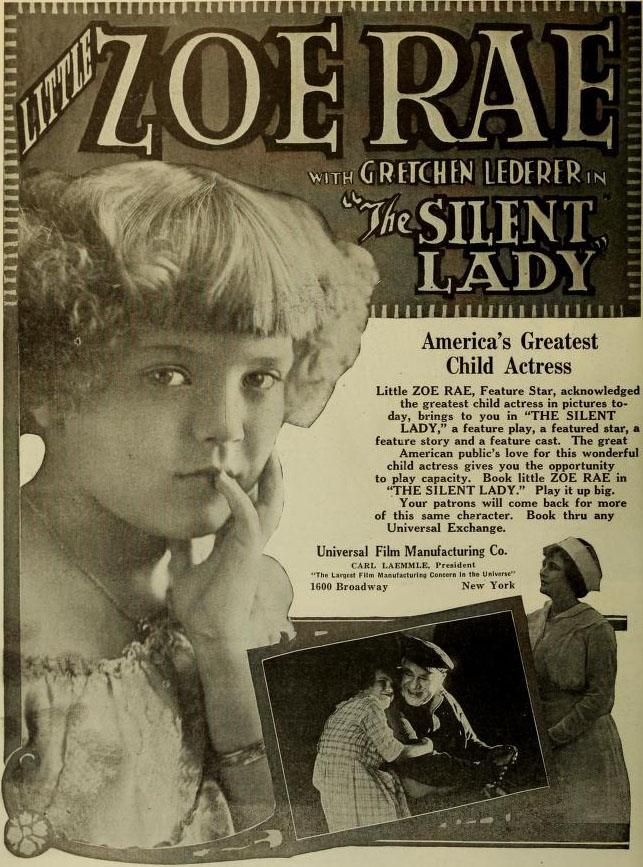 Advertisement in The Moving Picture World.